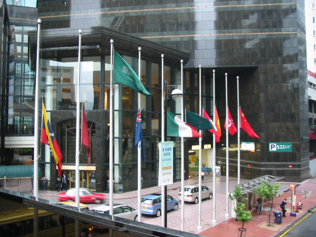 The flags outside Central Plaza, Hong Kong, flew at half-mast, mourning the victims of the Sichuan Earthquake, 2008. Saudi Arabia's national flag is exempted.